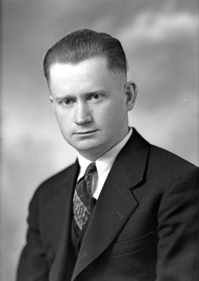 Representative Charles W. Hodde, 1937